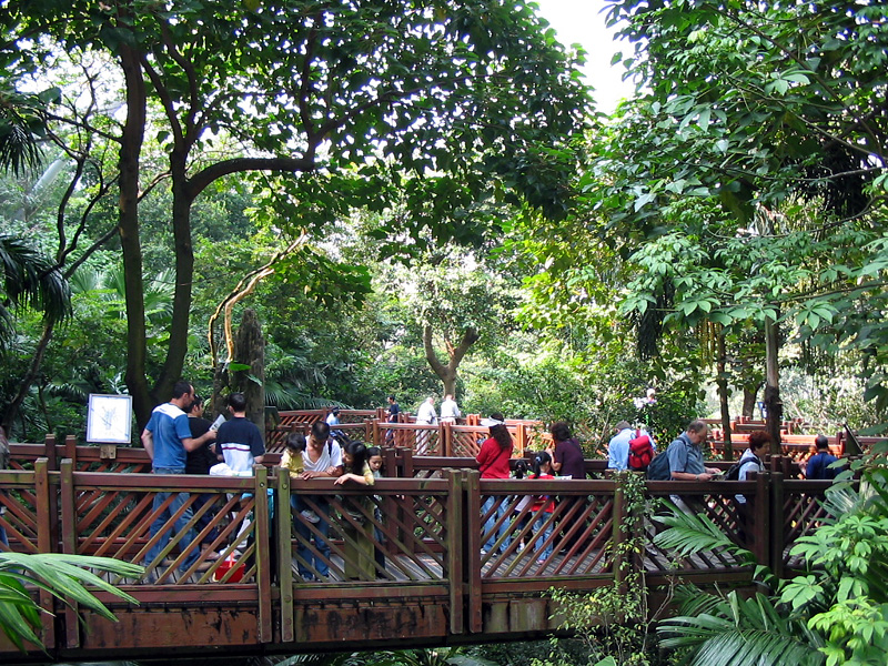 I took this photo